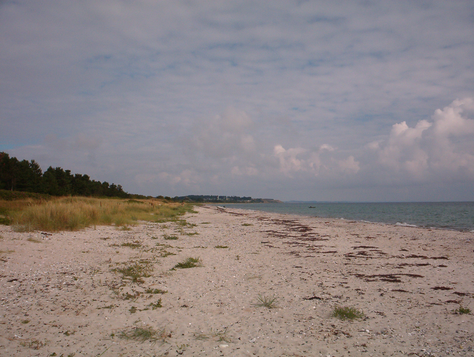 Beach on Samsø Source: Photo taken by Bruger:Palnatoke